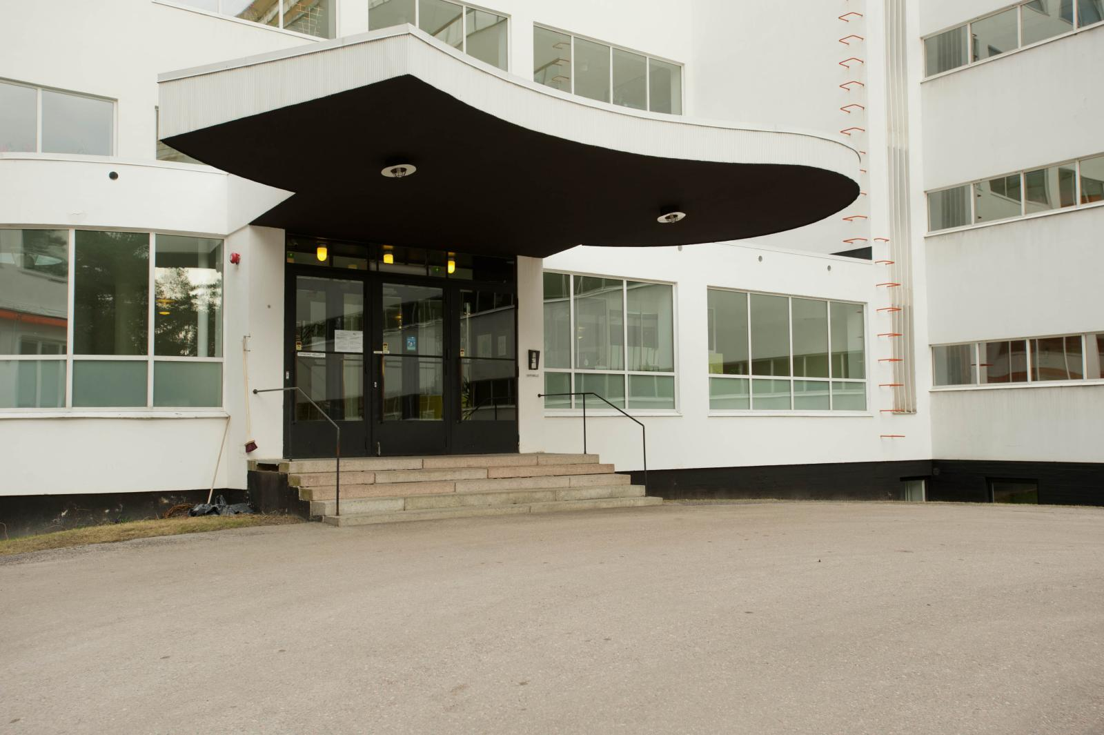 Entrance of Paimio Sanatorium, Finland